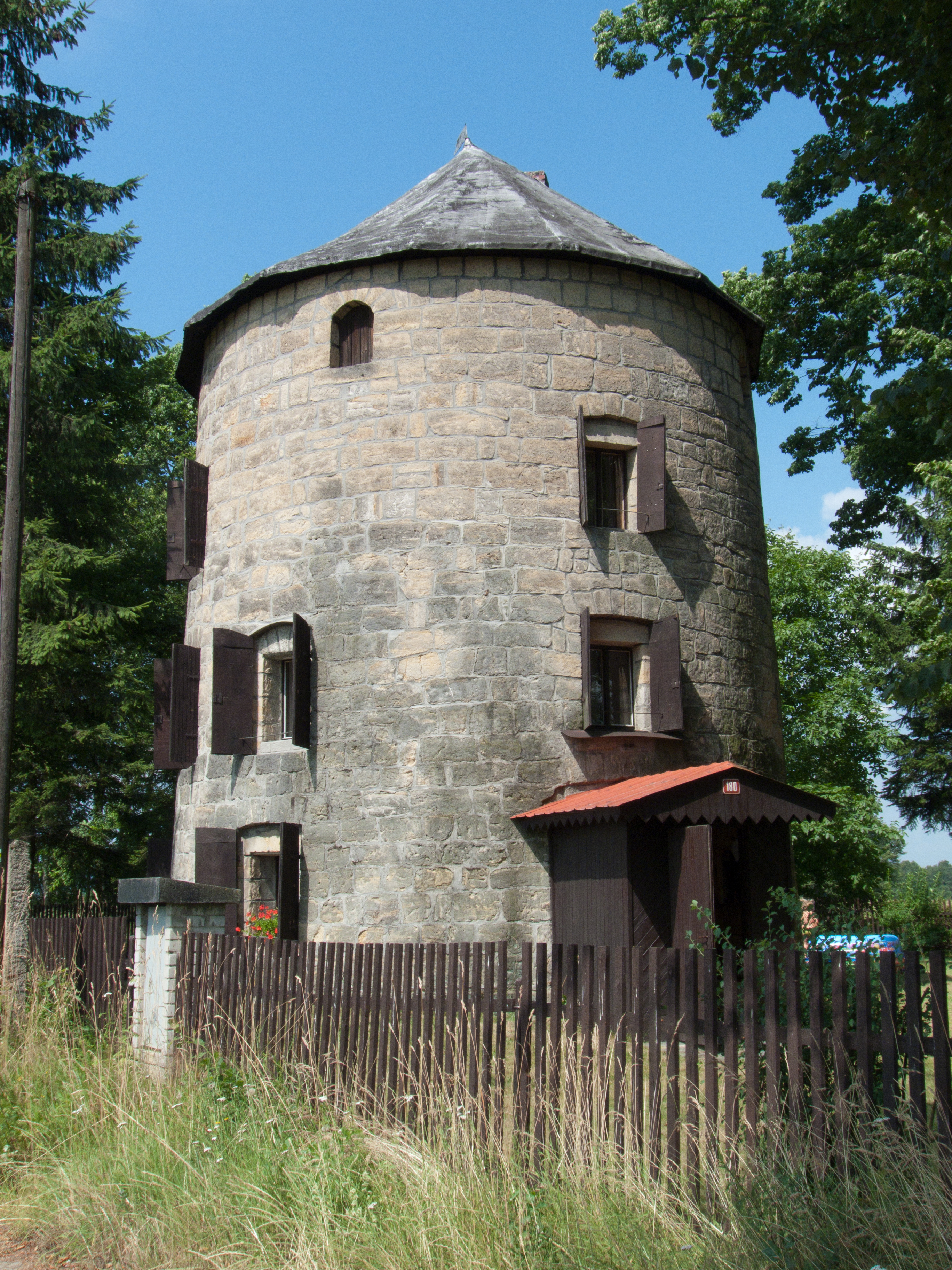 Former windmill in the village of Janov, Děčín District, Czech Republic